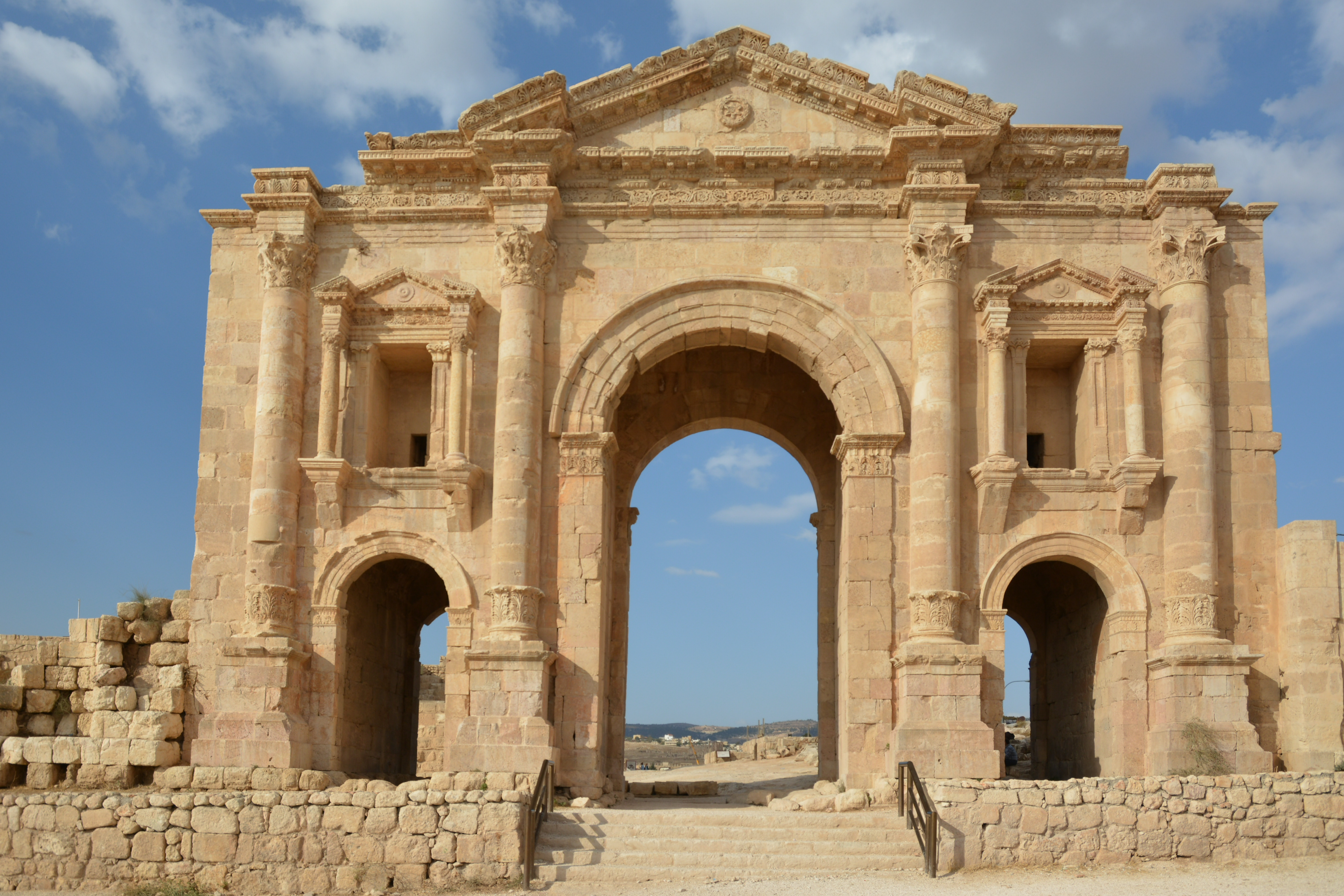 The Arch of Hadrian, at the Southern entrance of Jerash, in Jordan. The main entrance is 6 m wide and 11 m high, while the side entrances are 2.5 m wide and 5 m high.